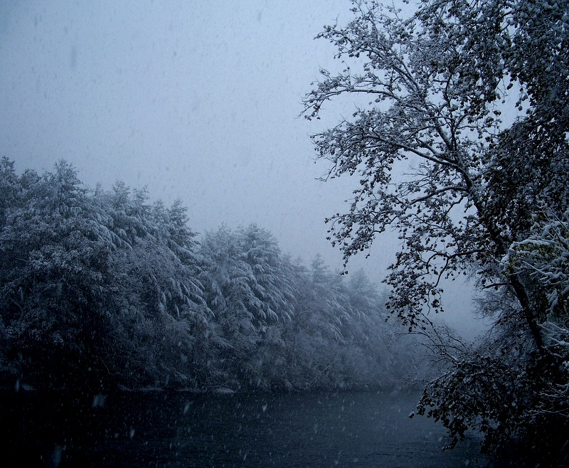 Freak snow storm in late October brought down many trees. View is just north of West Cornwall looking south. The area is still wild and supports wildlife despite encroachment from the wealthy seeking second homes and ruinous real estate developers.